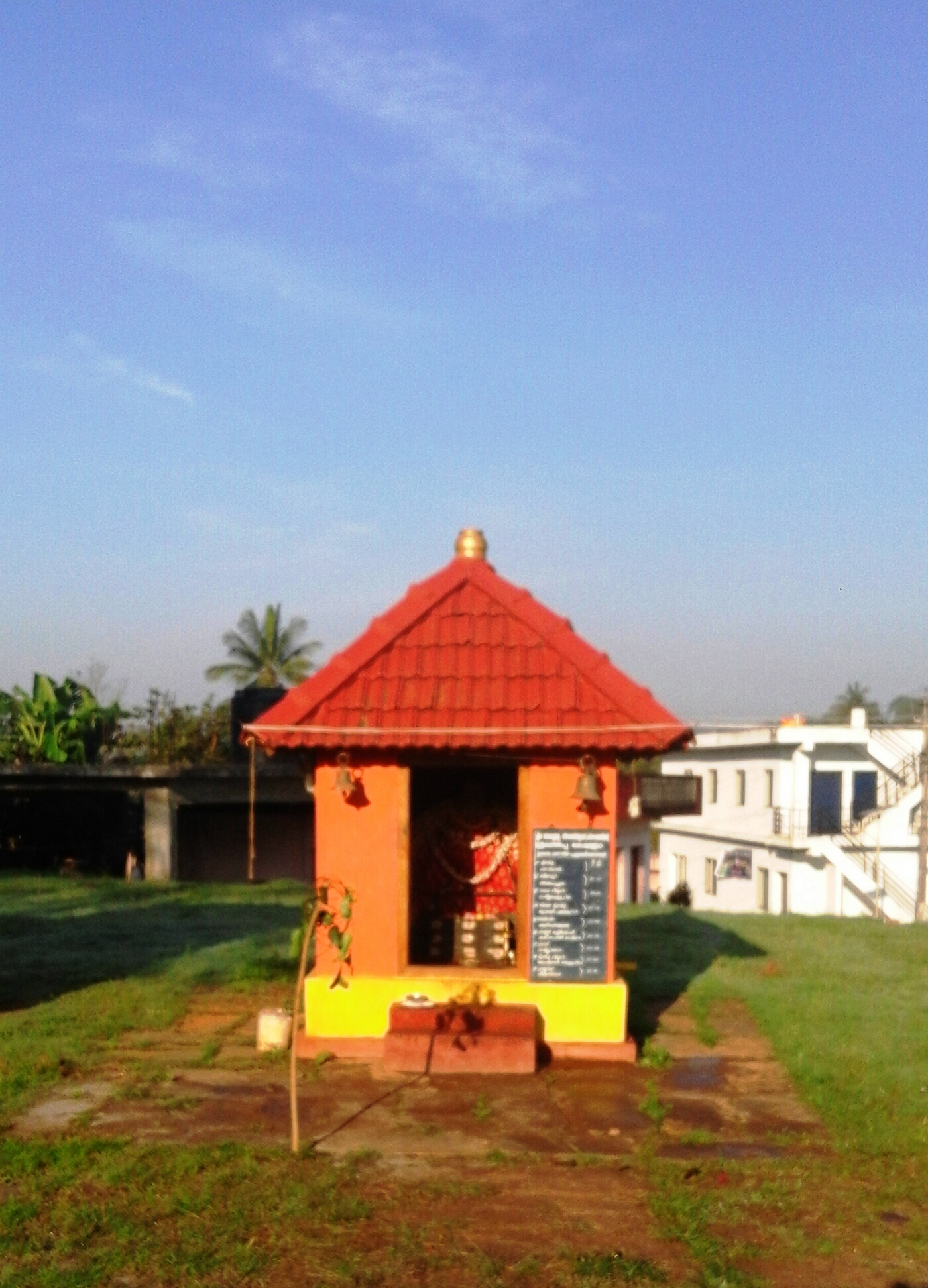 Suntikoppa town, Kodagu district, Karnataka state, India.